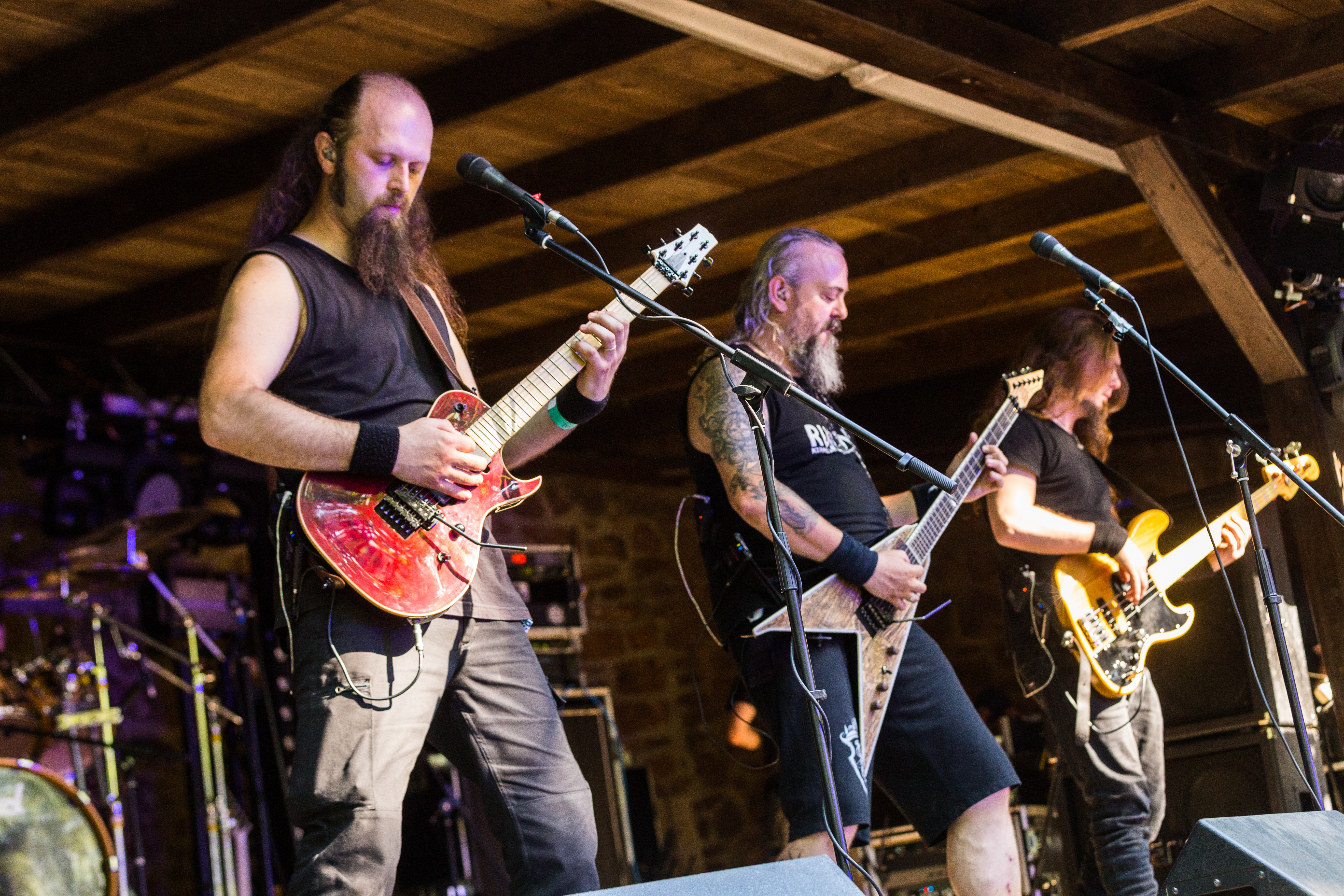 The Romanian folk metal band Bucovina at the Dark Troll Open Air 2017 in Bornstedt/Germany.